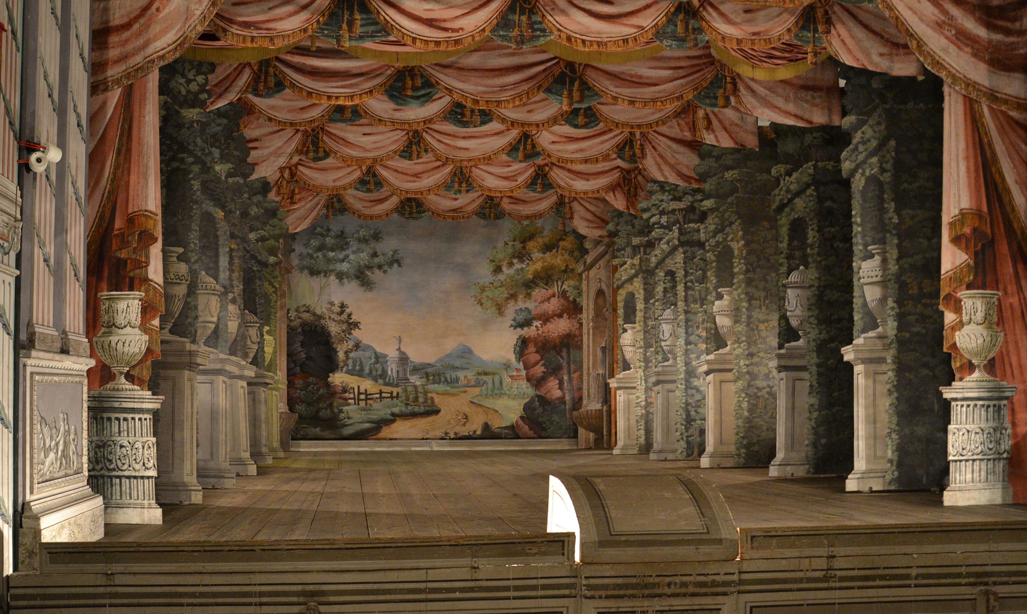 Litomyšl (Leitomischl) chateau - baroque theater